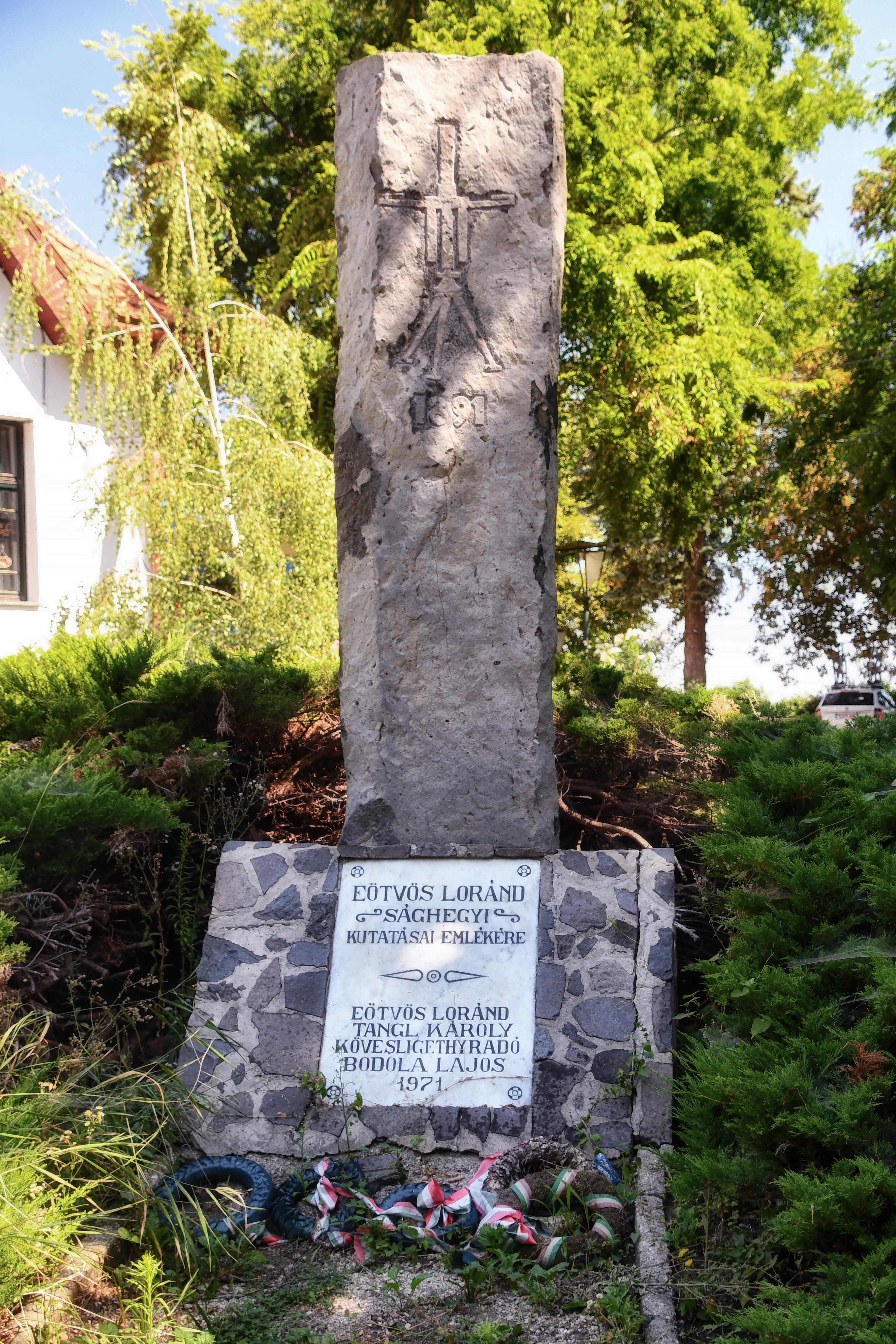 Memorial of Loránd Eötvös at the Ság-hegy